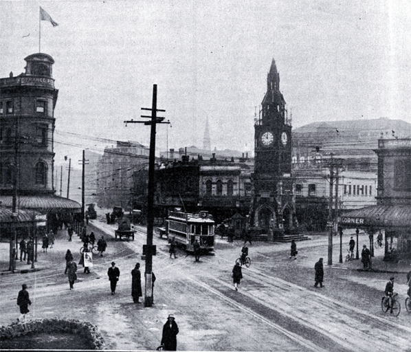 Victoria Clock Tower. The tram is driving along High Street in a south-east bound direction. The other street is Manchester Street. A third street running from left to right is Lichfield Street. The spire in the background is of ChristChurch Cathedral.